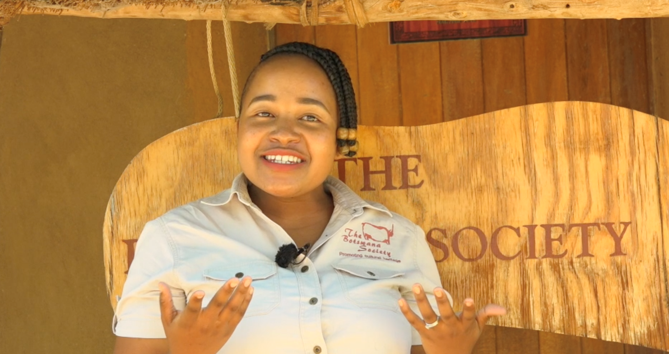 Bono Mmusi, Botswana Society Project Manager, giving a talk on behalf of the organization